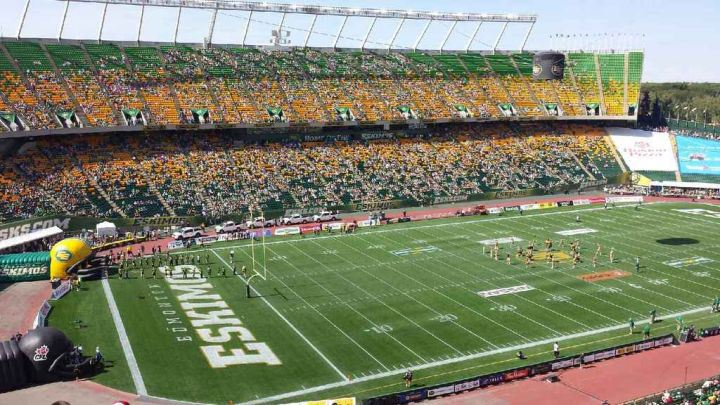 Saskatchewan Roughriders vs. Edmonton Eskimos on June 29th, 2013.